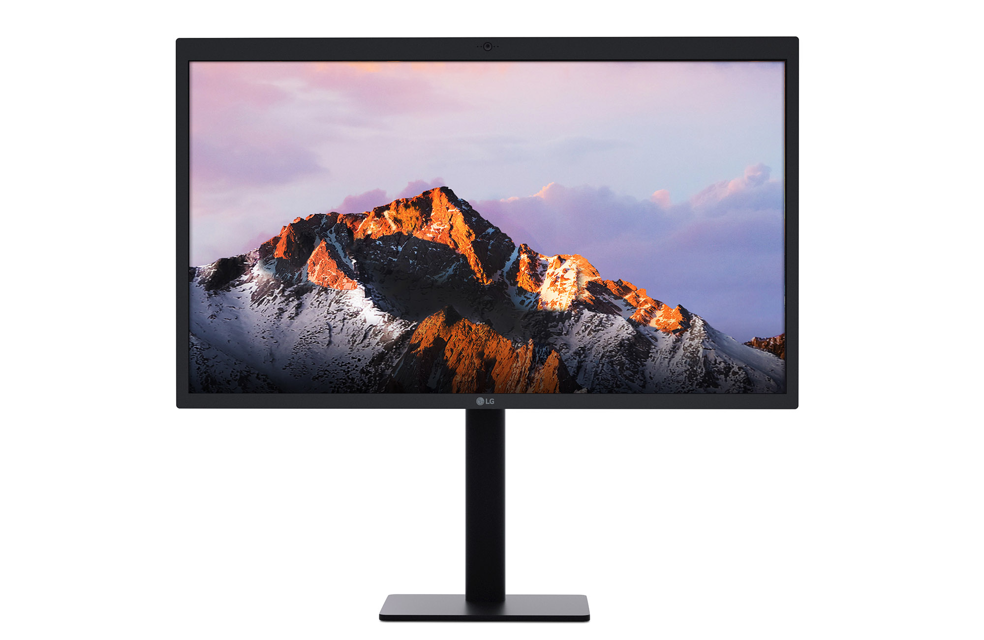 The LG UltraFine 5K Display, a product created by LGE with Apple Inc.